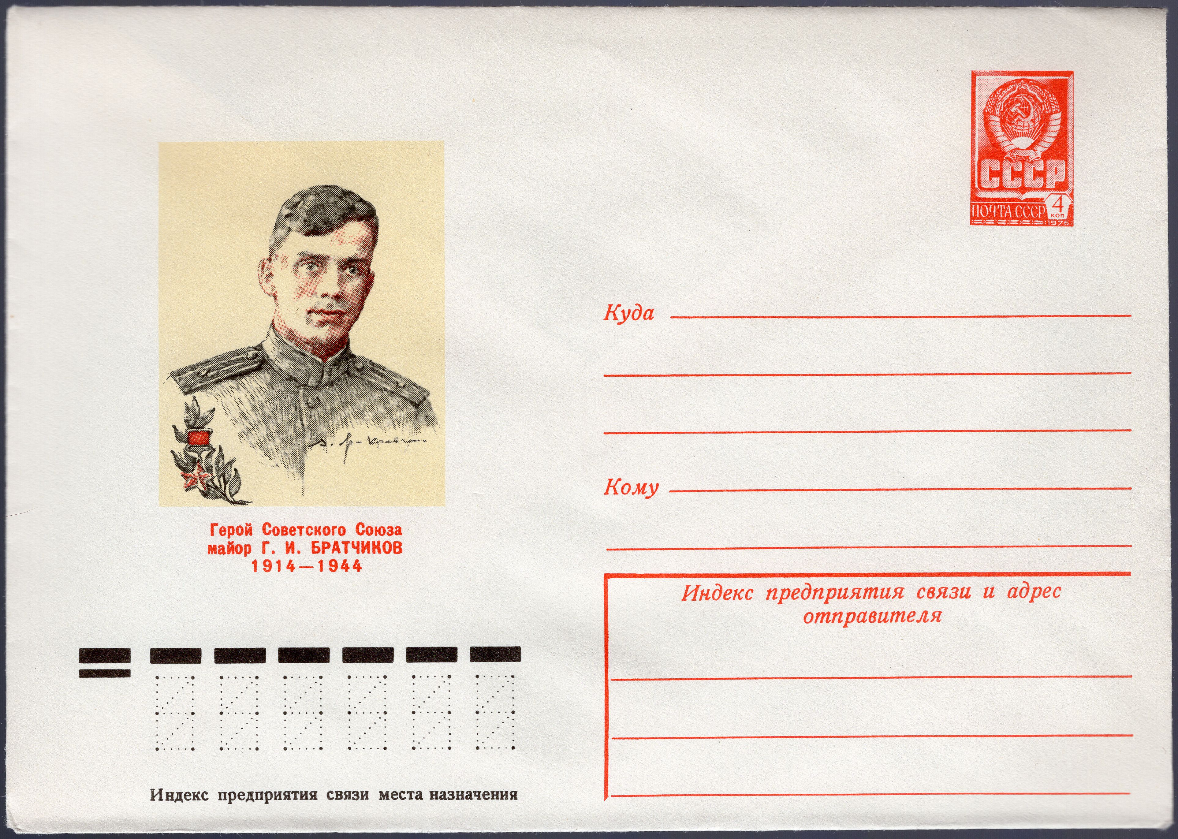 Hero of the Soviet Union Major Gennady Bratchikov. 1914-1944. Series: Heroes of the Soviet Union. Artist Anatoly Yar-Kravchenko.